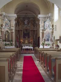 The Church Interior in Nagykovácsi Author: artdesigns2006